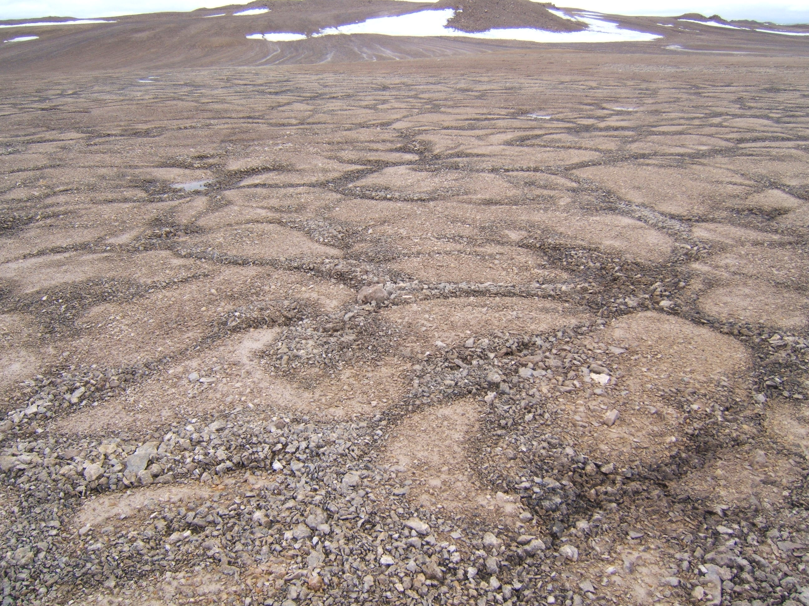 Patterned ground permafrost pattern seen on Devon Island, CA